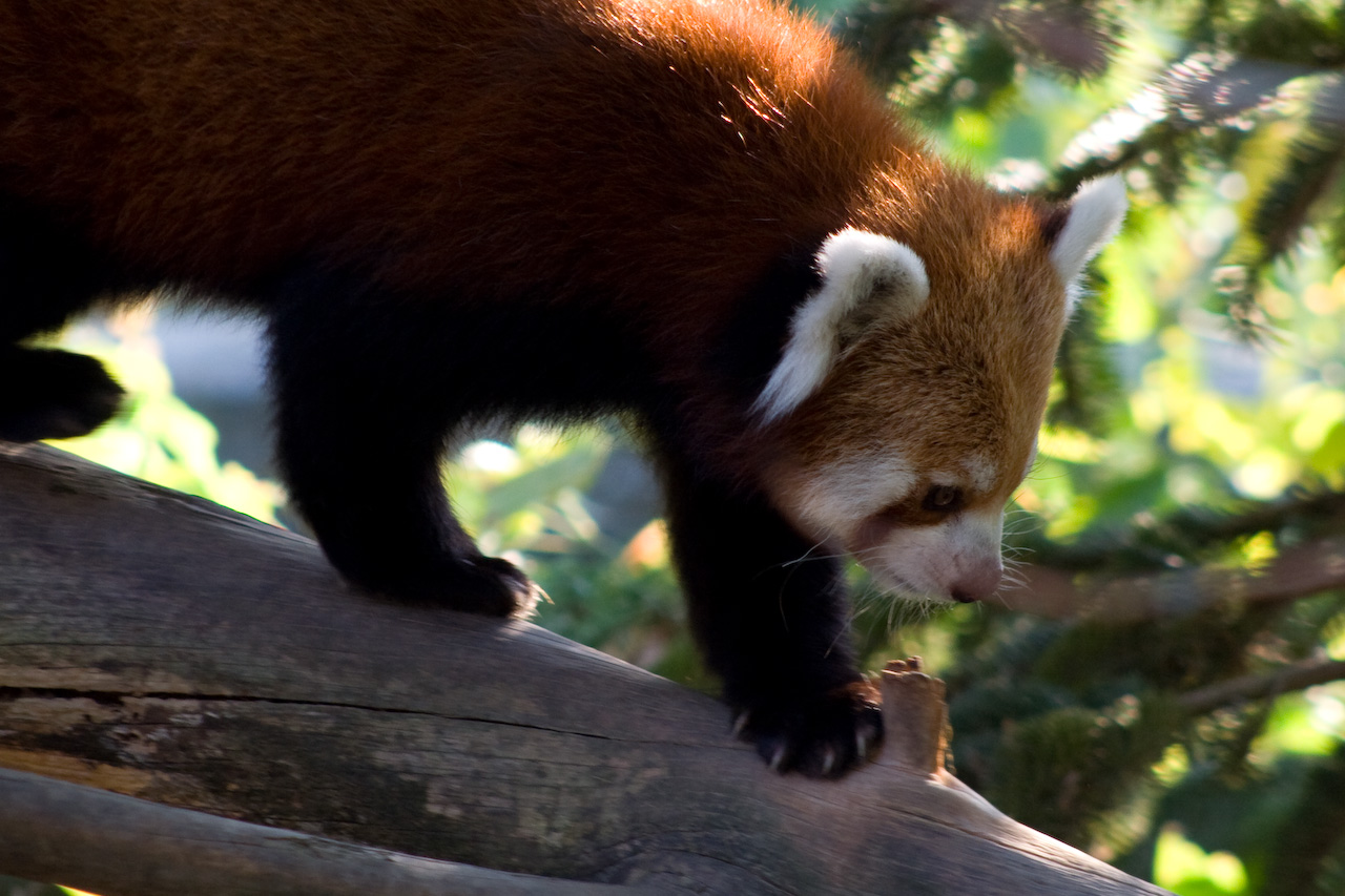 It was a pain to get a shot of him. Always moving and hiding